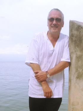 Albert Jack in Bangkok